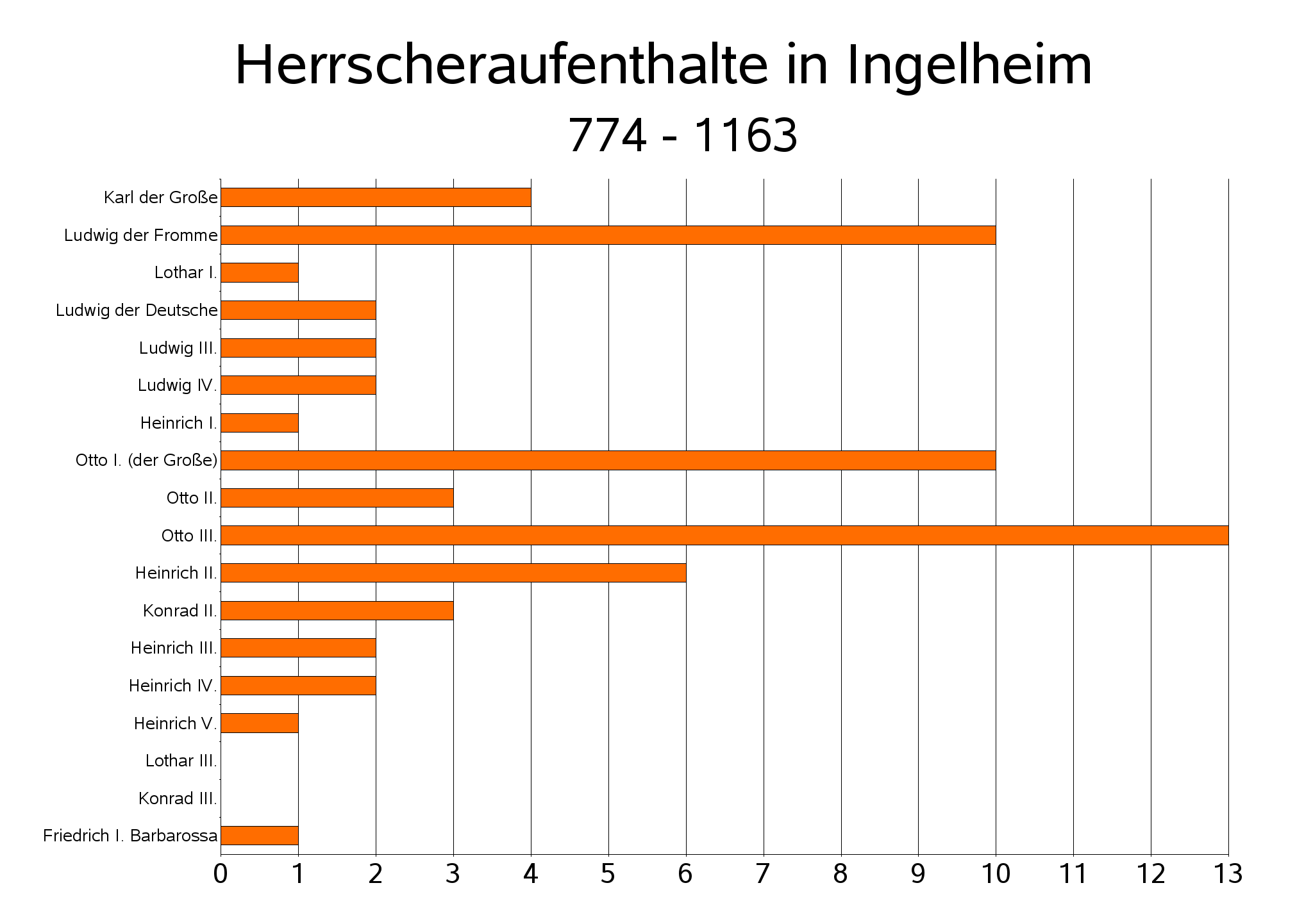 Bar chart of royal and imperial visits to Ingelheim from Charlemagne to Frederick I. Barbarossa